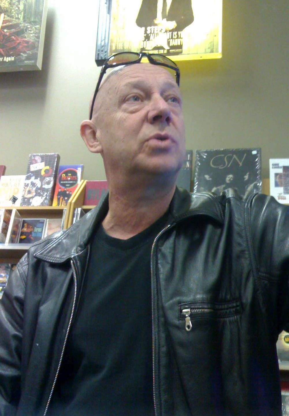 Photo of Australian singer/song-writer Russell Morris